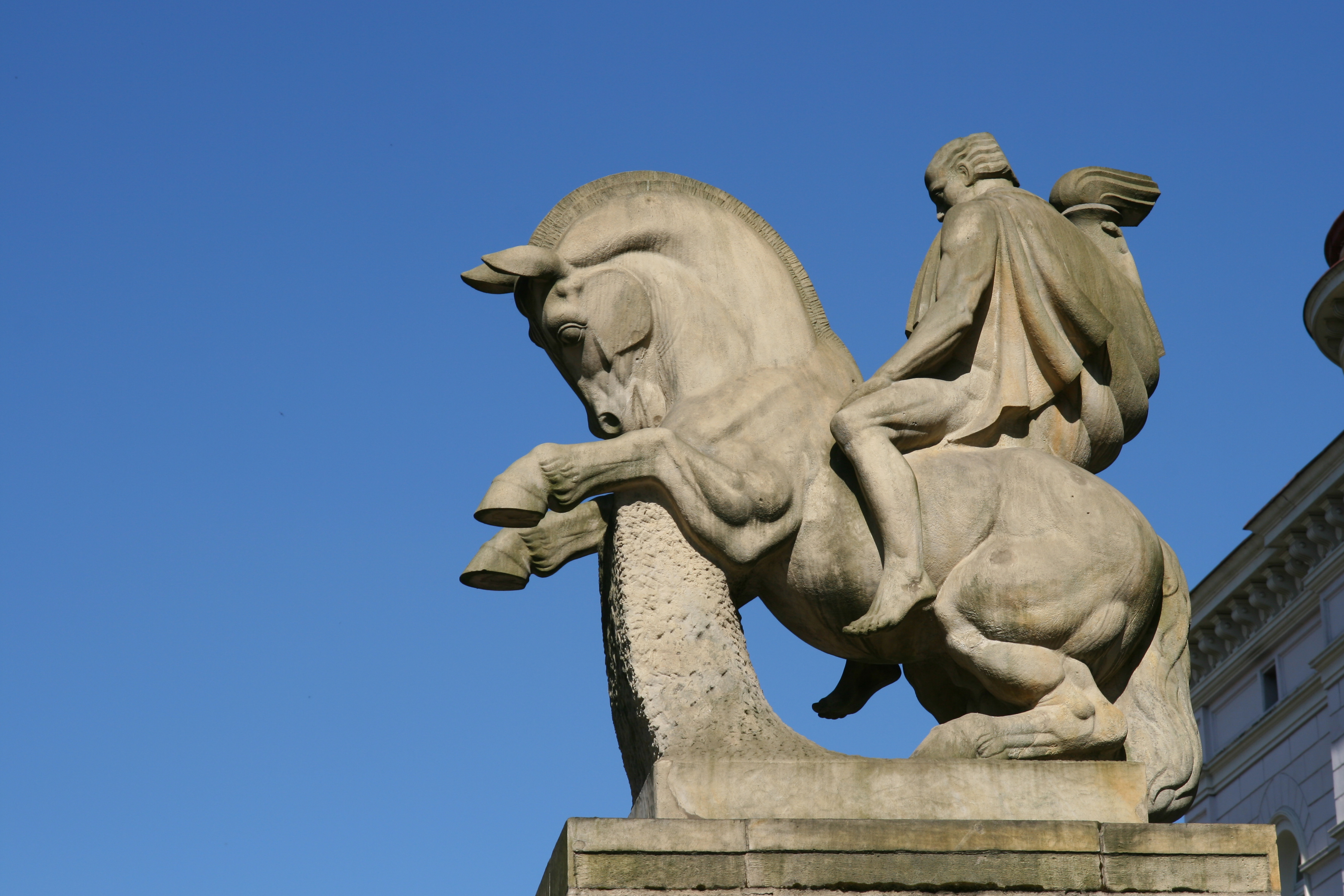 Monument for Postal Workers killed in action in I world war in Opole (Poland). Sculpted by Felix Kupsch.